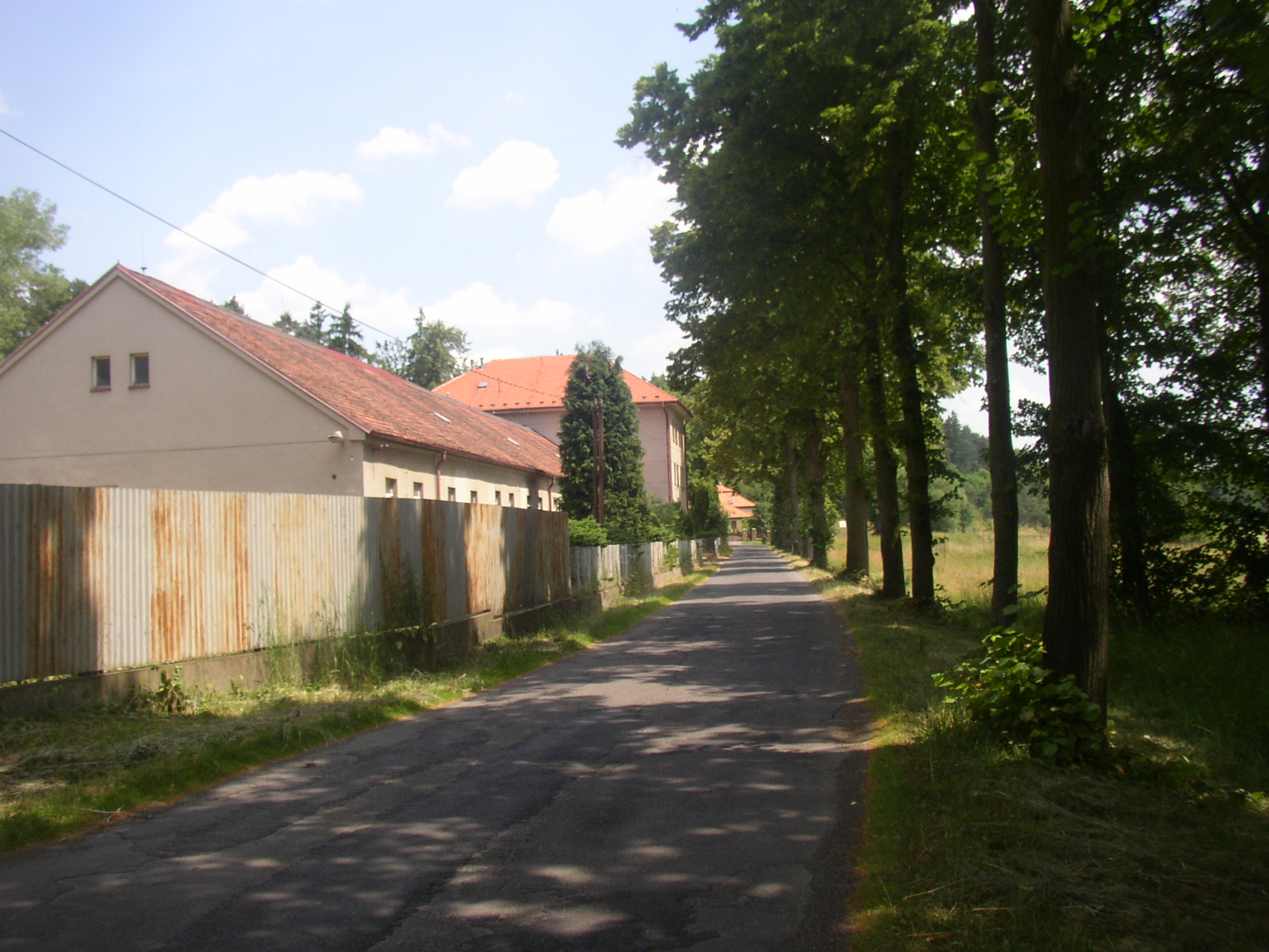 Former spa buildings (later a boarding house and barracks of Prague Castle Guard) along thoroughfare in Dobrá Voda, nowadays part of Březnice town, Příbram District, Czech Republic. A view from the west, while arriving from Bor.